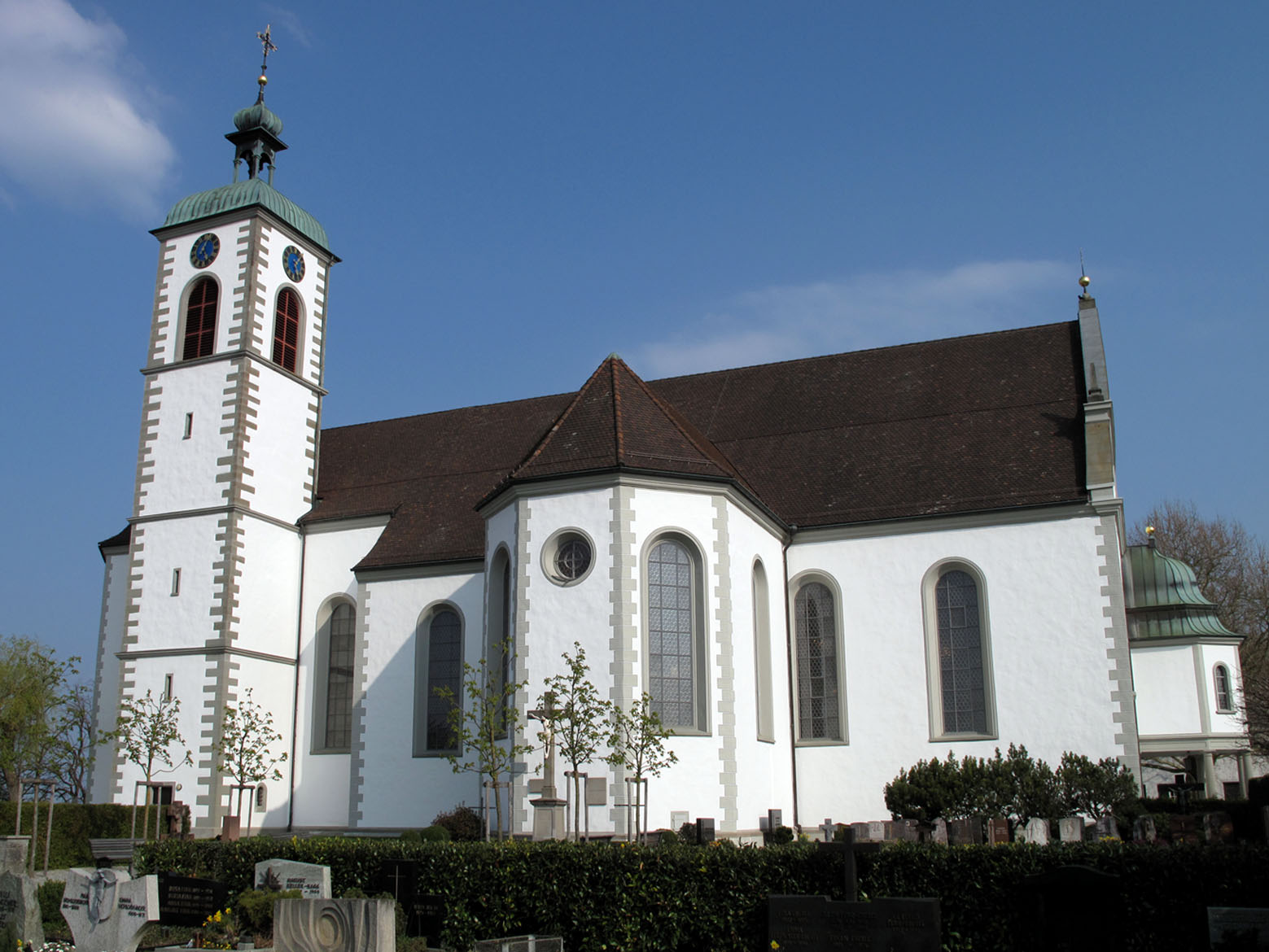 Former collegiate church Saint Ulrich and Afra of Kreuzlingen Abbey